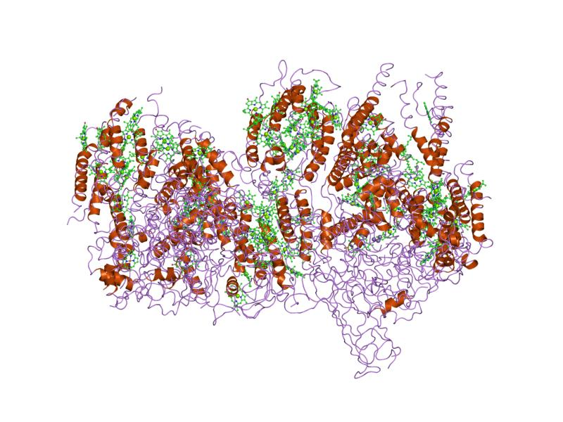 Cartoon representation of the molecular structure of protein registered with 1izl code.